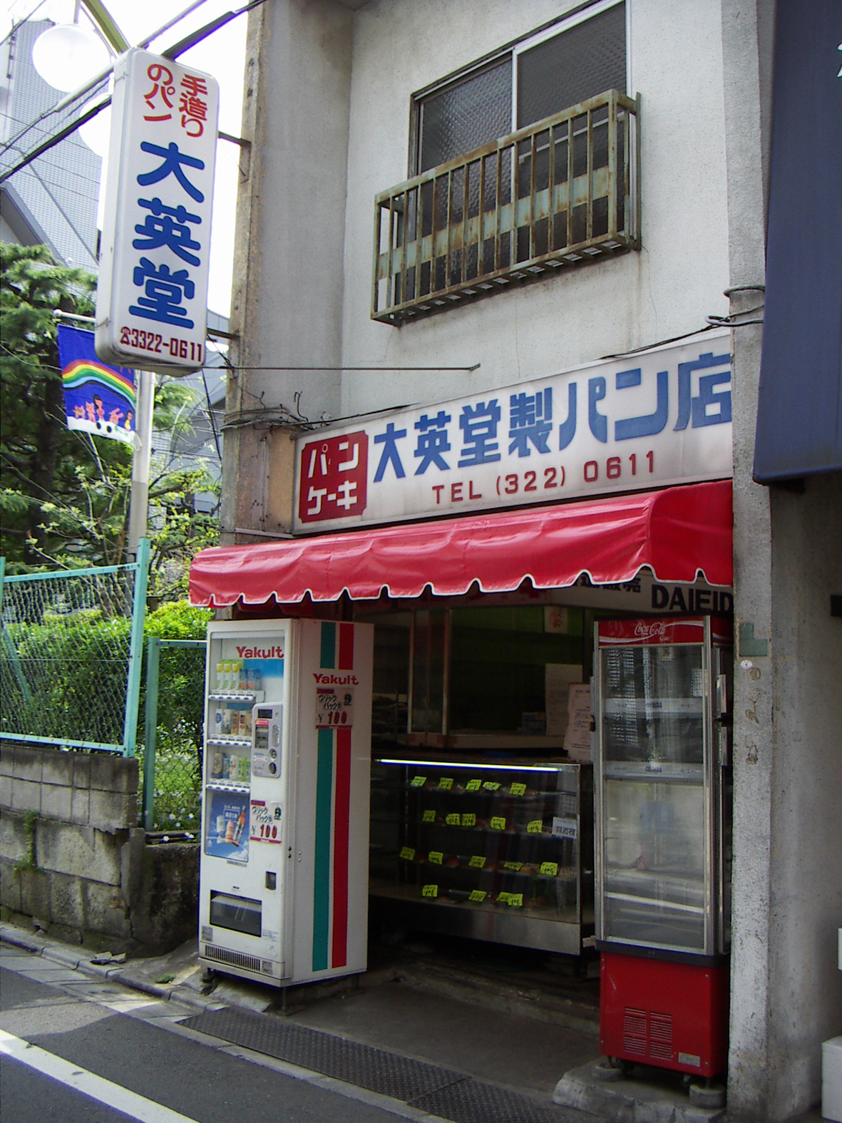 meidaimae daieido bakery 2006